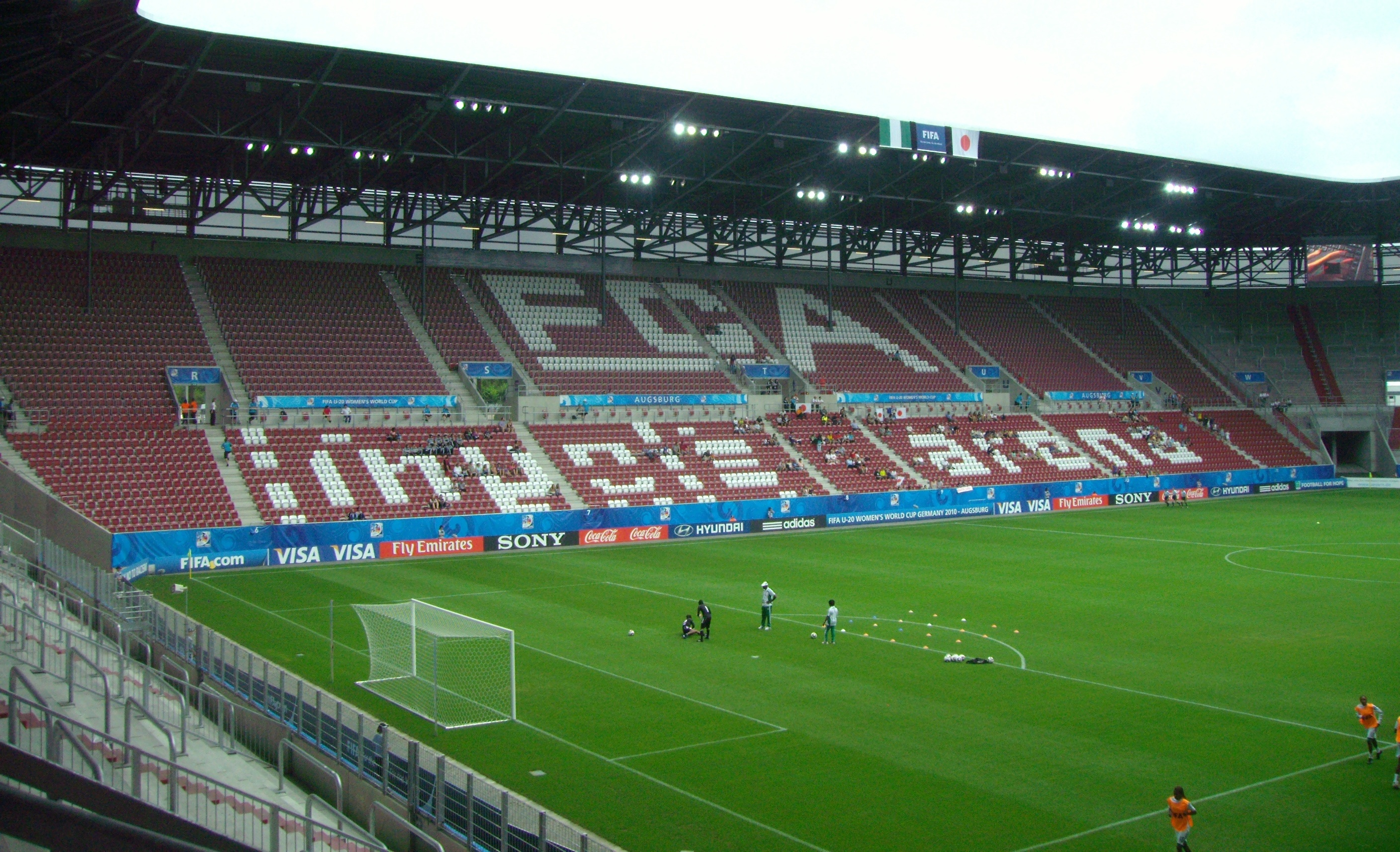 Impuls Arena as “FIFA Women's World Cup Stadium Augsburg” at 2010 FIFA U-20 Women's World Cup, popular Side from the northeastern corner, before Nigeria–Japan, Nigerian Women warming up.